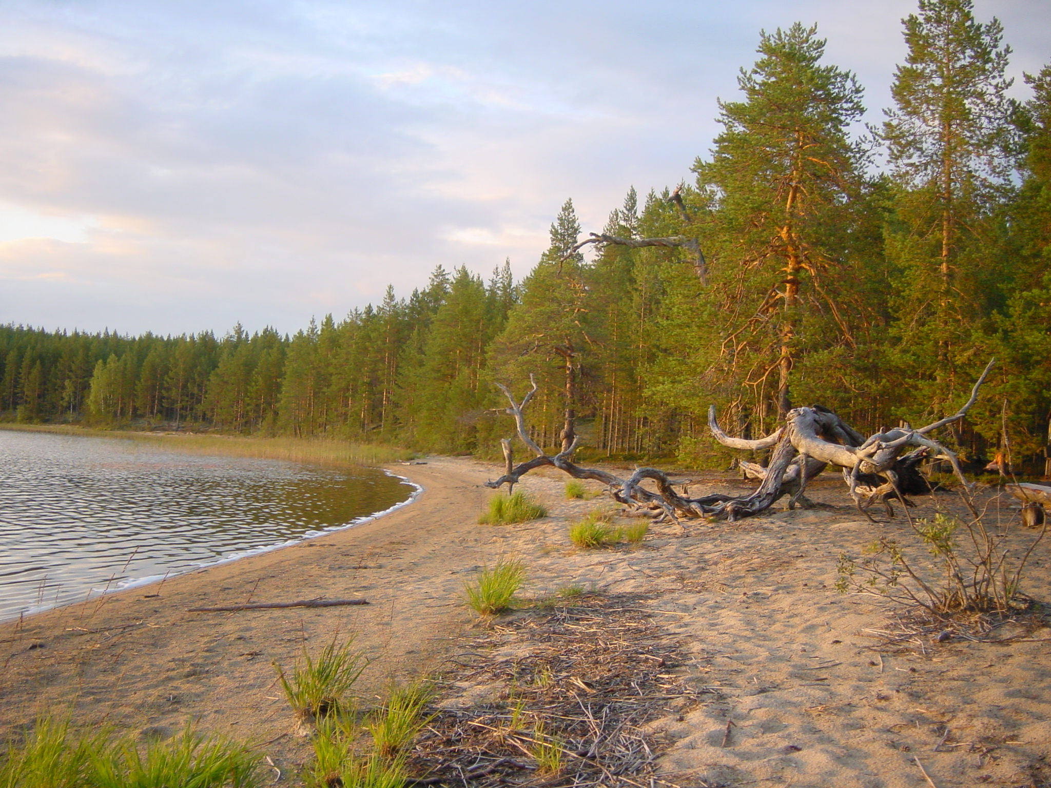 Sand beach at lake Suomunjärvi in the Patvinsuo National Park, Finland.